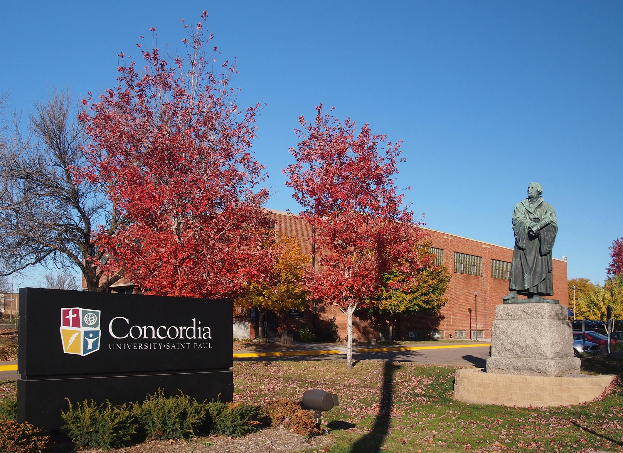 Main entrance to the Concordia University–Saint Paul campus, Saint Paul, Minnesota, USA. Viewed from the southwest.